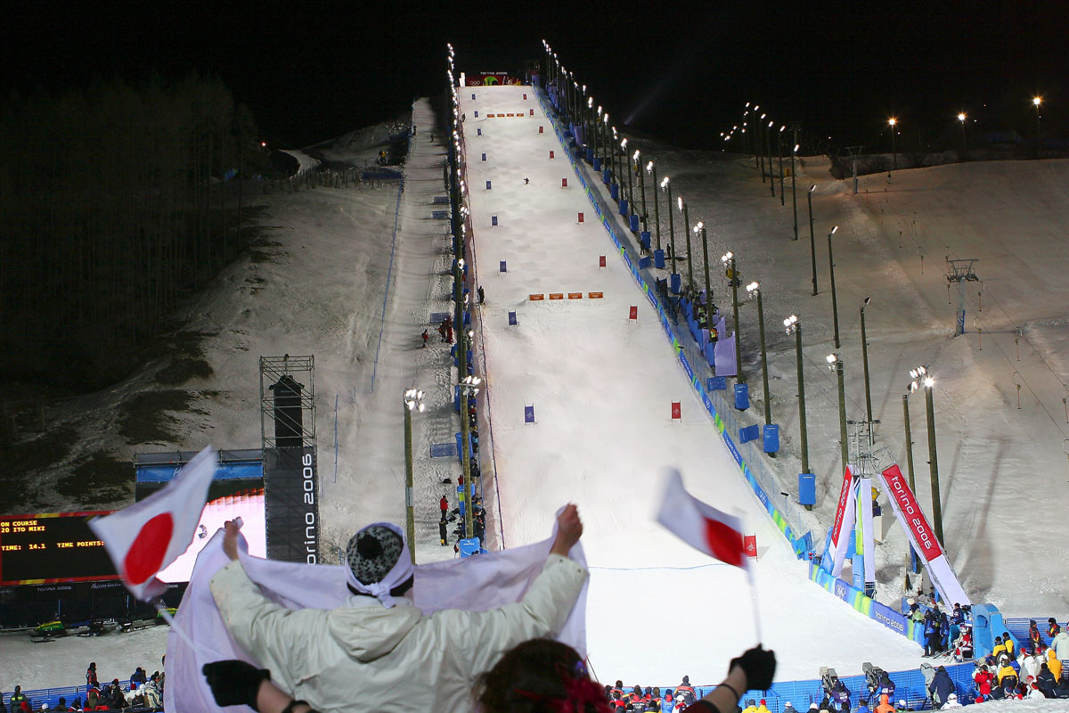 Women's moguls at the Winter Games 2006.